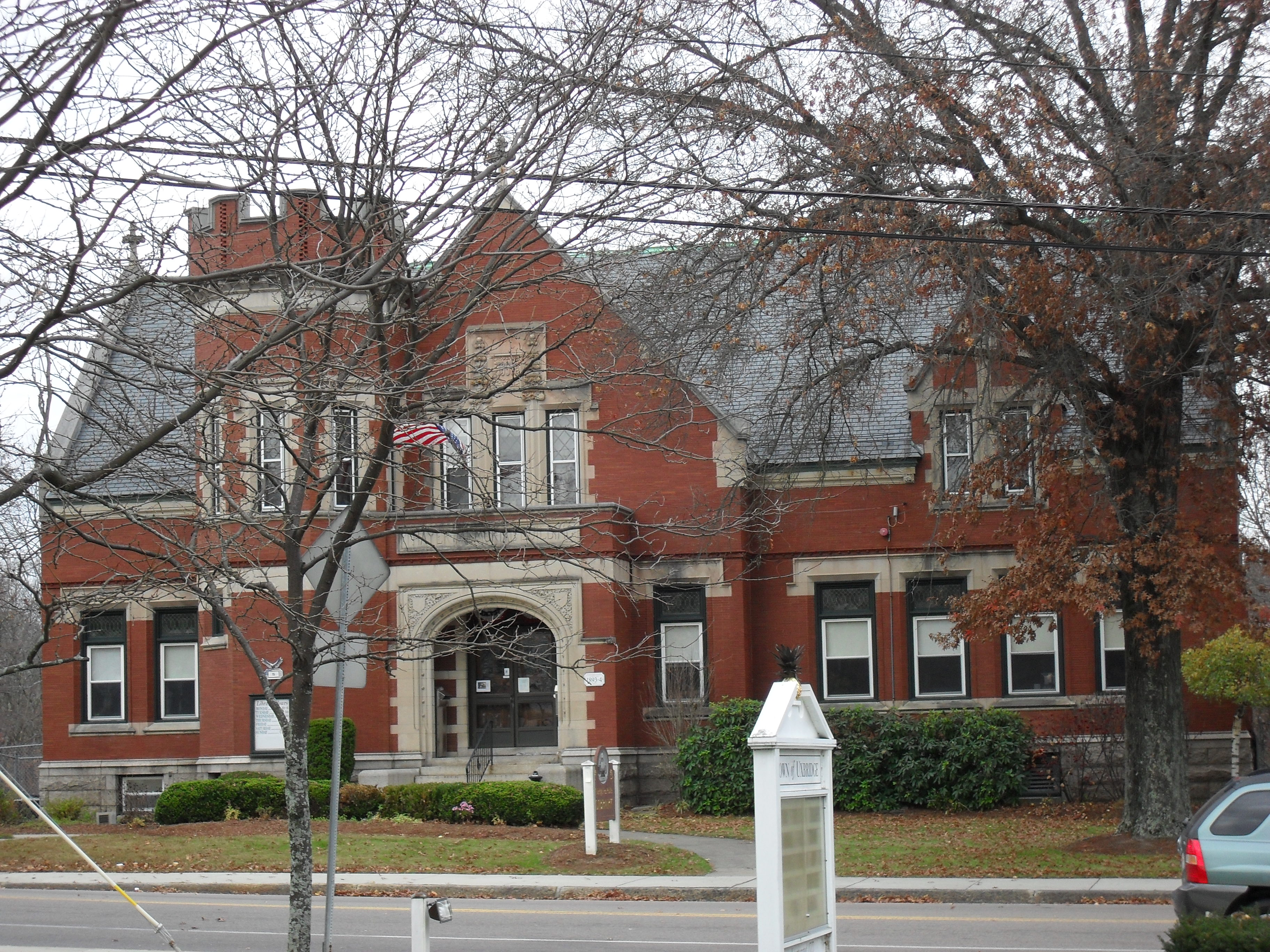 Picture of Uxbridge, MA Free Public Library, Uxbridge, MA